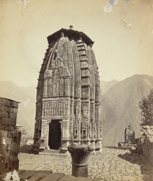 Narasimha Temple, Brahmaur, Chamba